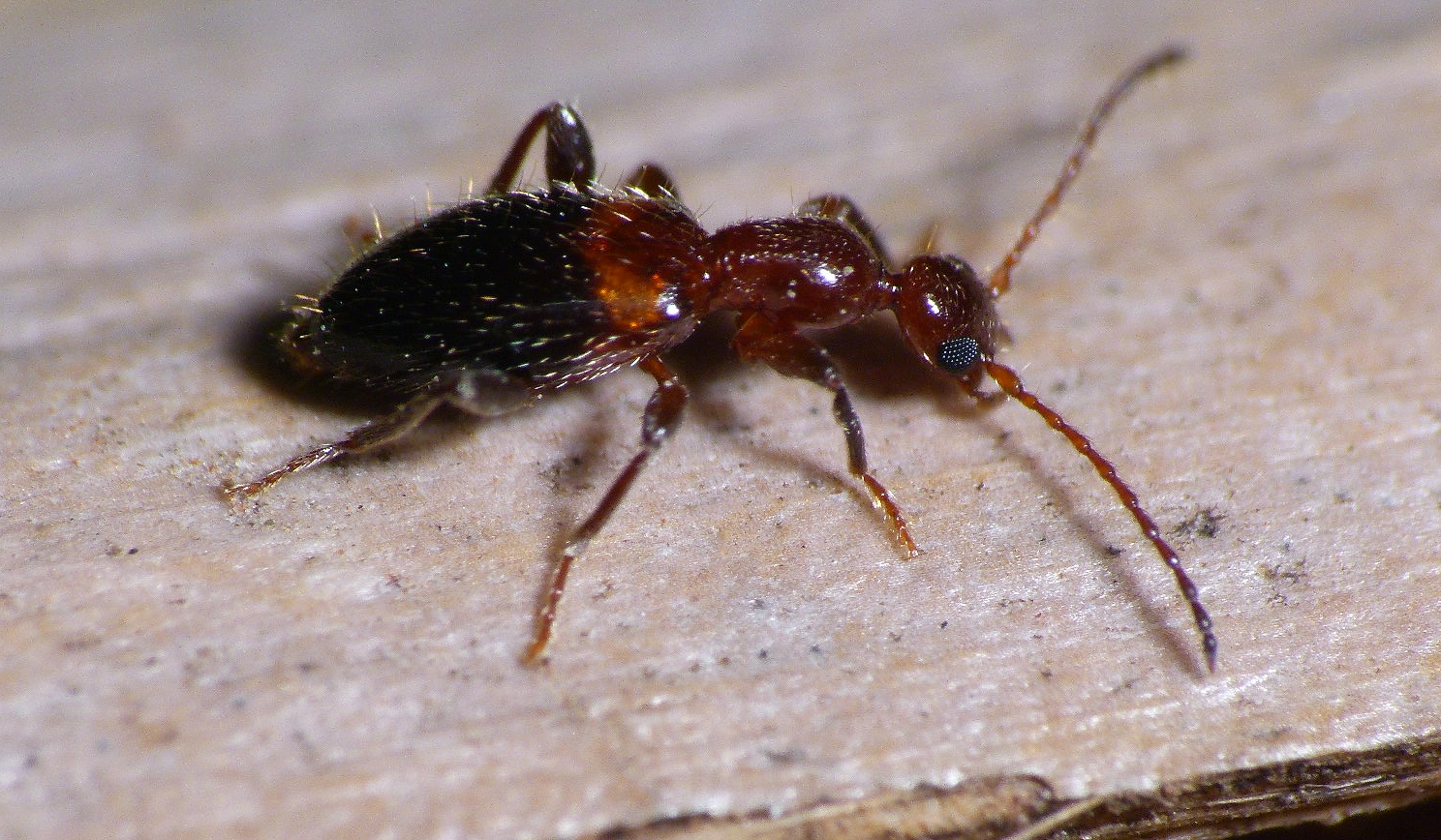 Anthicidae, India, Bandipur